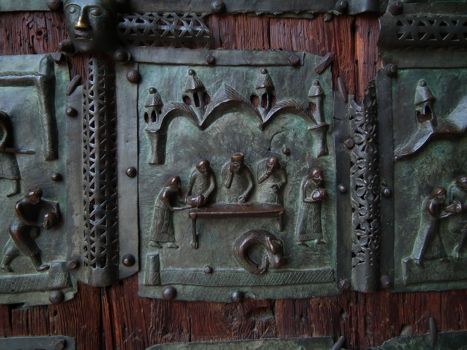 Details on the left panel of the Bronze door. Basilica of San Zeno, Verona Native nameBasilica di San ZenoLocationVerona, Veneto, ItalyCoordinates45° 26′ 33″ N, 10° 58′ 45″ E Established12th/13th centuryWebsite